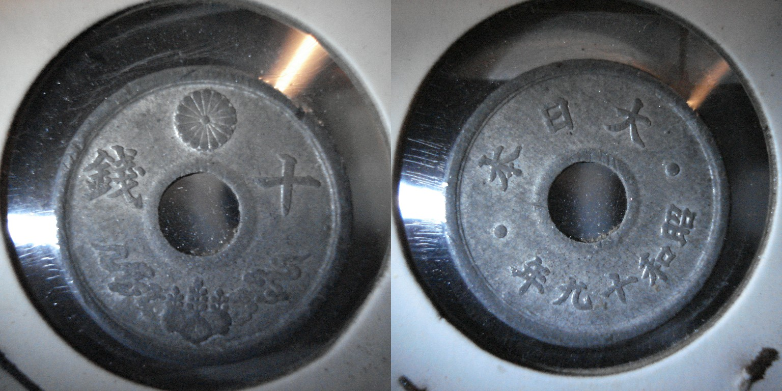 Japanese coins. 10sen, Tin. Made in 1944(Showa 19).